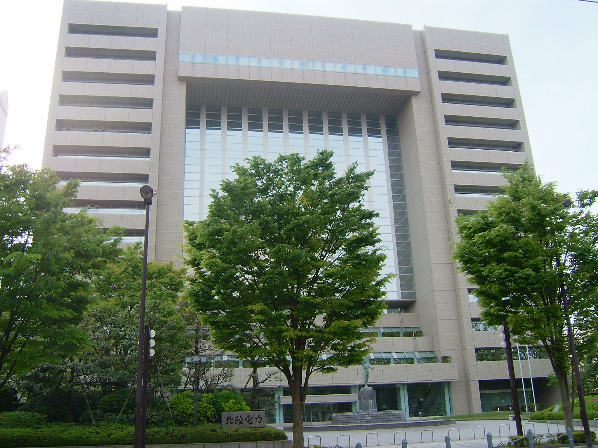 Hokuriku Electric Power Company Headquarter(Toyama city,Toyama prefecture)